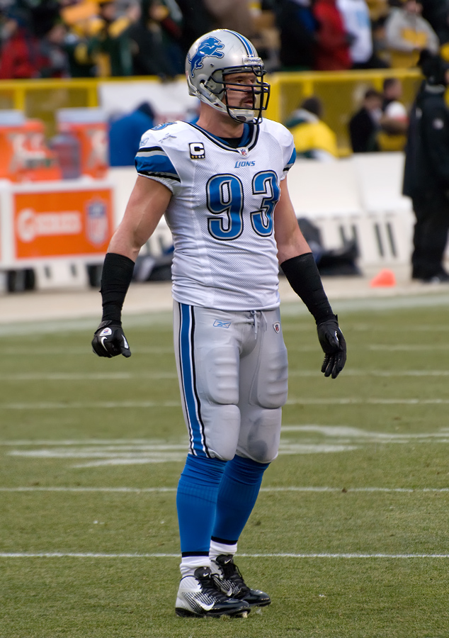 Detroit Lions vs. Green Bay Packers at Lambeau Field on January 1, 2012. Photo by Mike Morbeck.